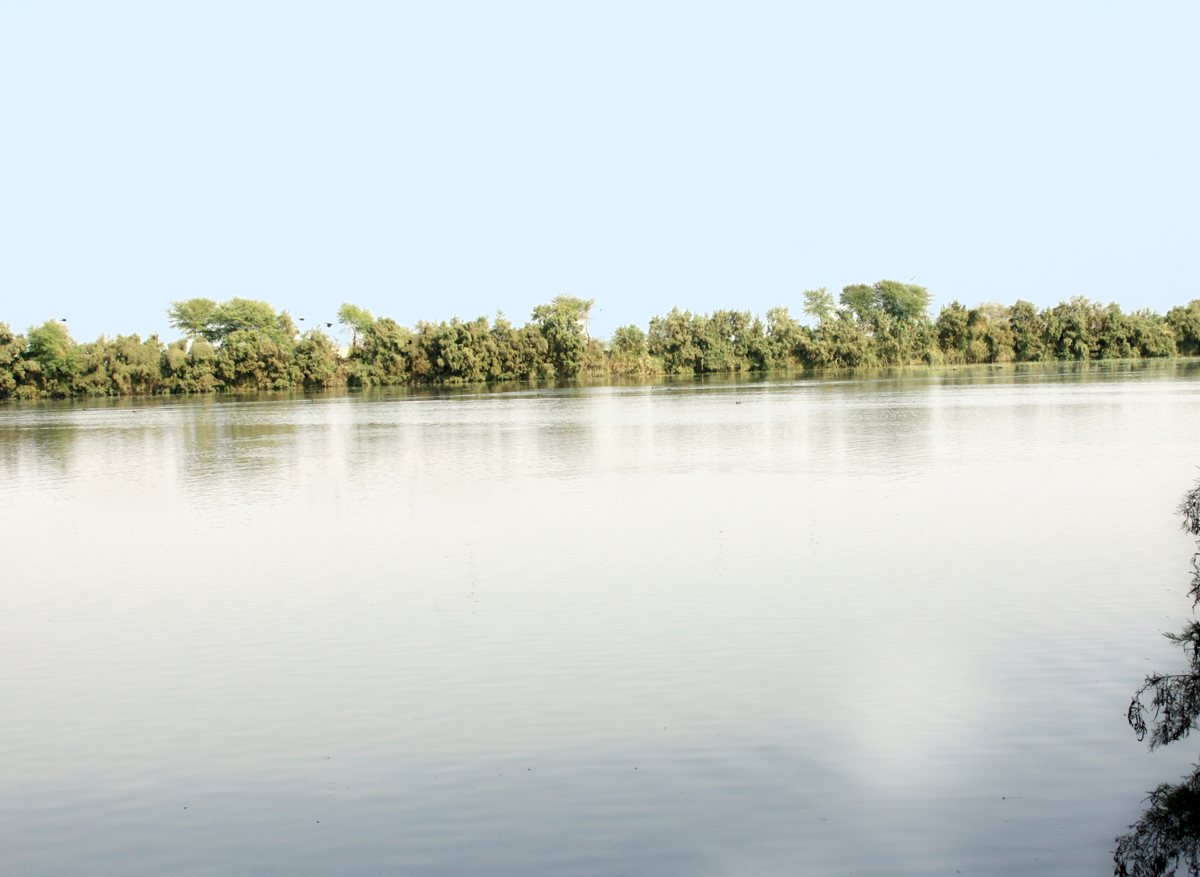 Drigh Lake shaikh jo takk